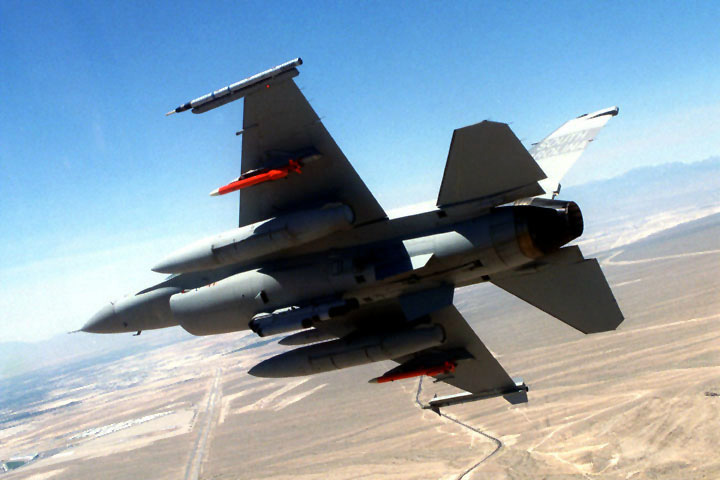 A 169th Fighter Wing F-16C Falcon, Block 52, aircraft from McEntire Air National Guard Station, South Carolina, participate in a Miniature Air-Launched Decoy (M.A.L.D.) exercise at Nellis Air Force Base, Nevada. The exercise began on July 2nd, 1999. The South Carolina Air National Guard is the only reserve/guard unit to receive this high-profile mission known as Supression of Enemy Air Defenses (S.E.A.D.) Location: NELLIS AIR FORCE BASE, NEVADA (NV) UNITED STATES OF AMERICA (USA)